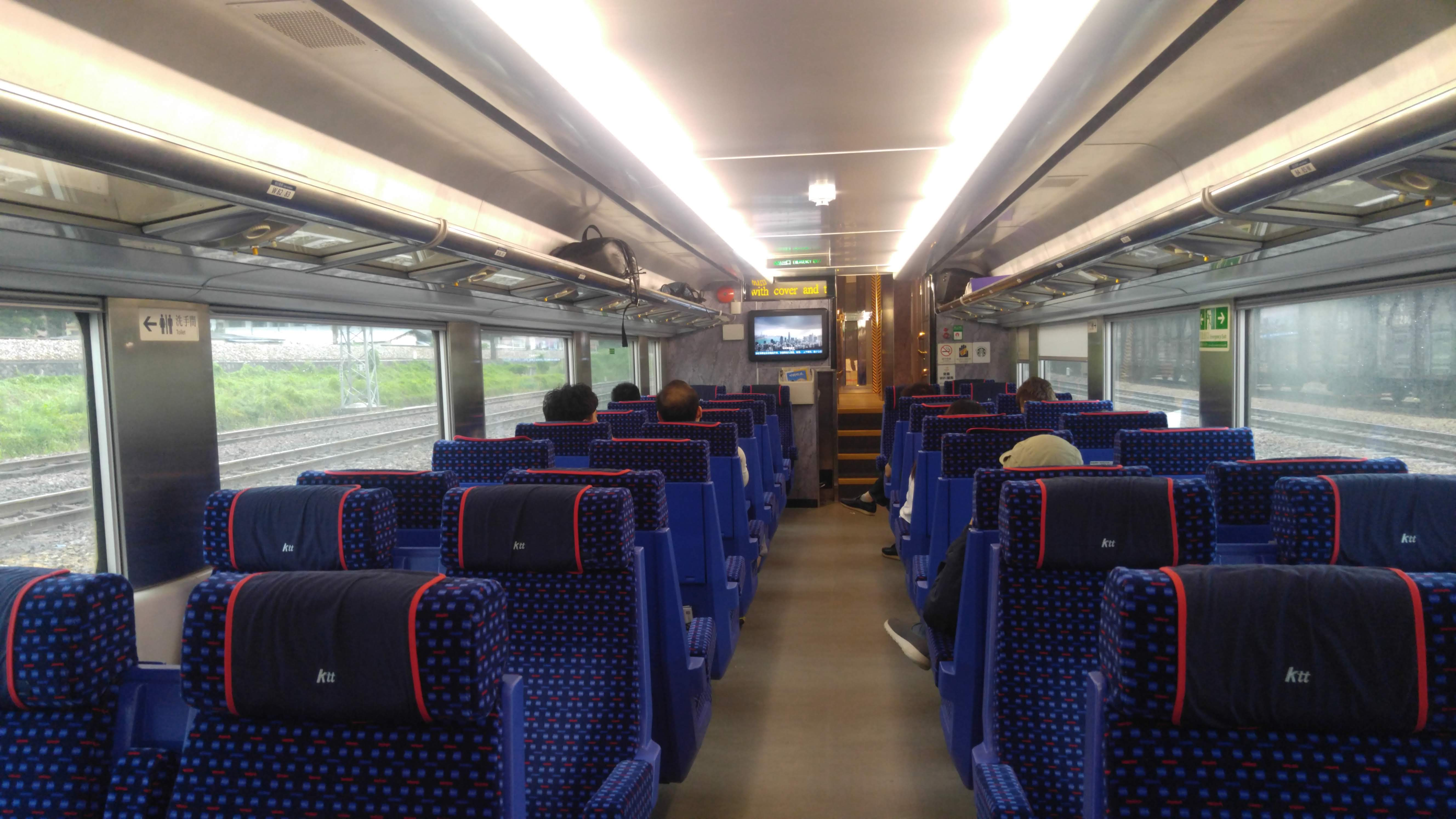 interior of refurbished ktt itnerior